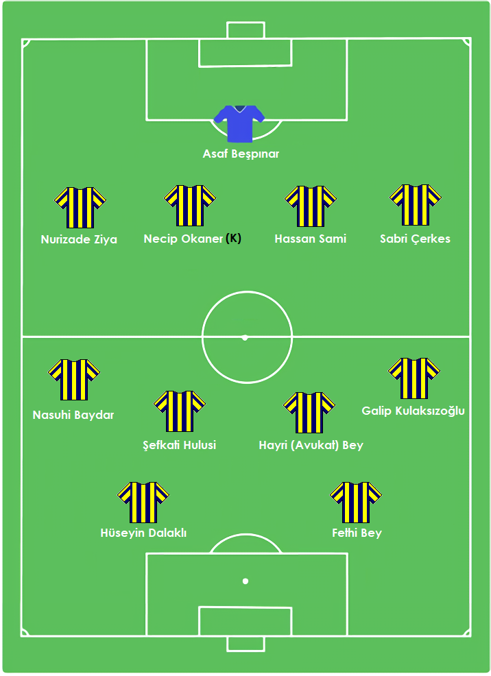 Season of 1906-1907, Fenerbahçe Football Team's first formation